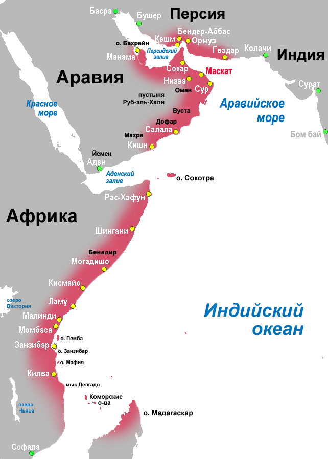 Map of Sultanate Muscat and Oman and its dependencies (Omani empire) in 1856 (before partition).